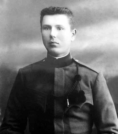 Václav Vrbata